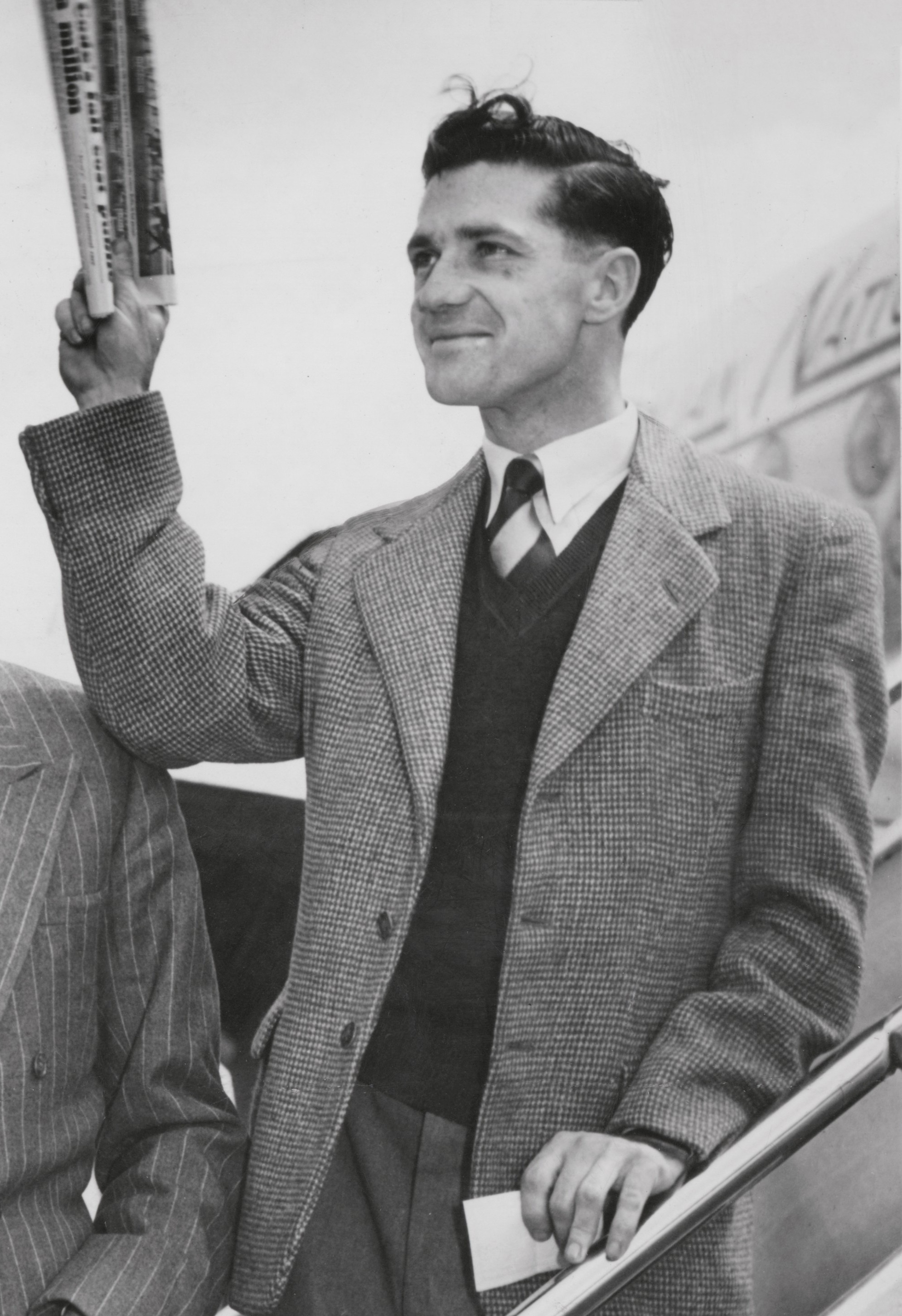 Victorian cricketer Neil Harvey boarding a plane to Brisbane for the first test match; 1951-1952 Australia v West Indies